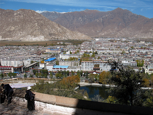 Capital de Tibet. Lhasa seen from the Potala Palace